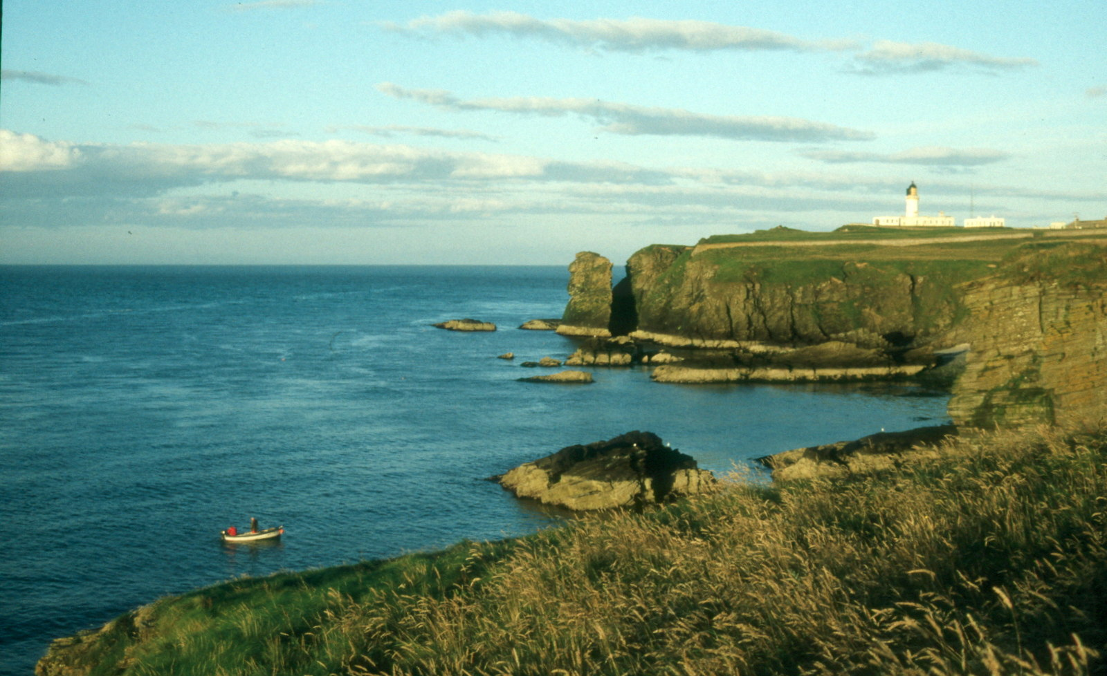 Across Sand Geo to Noss Head